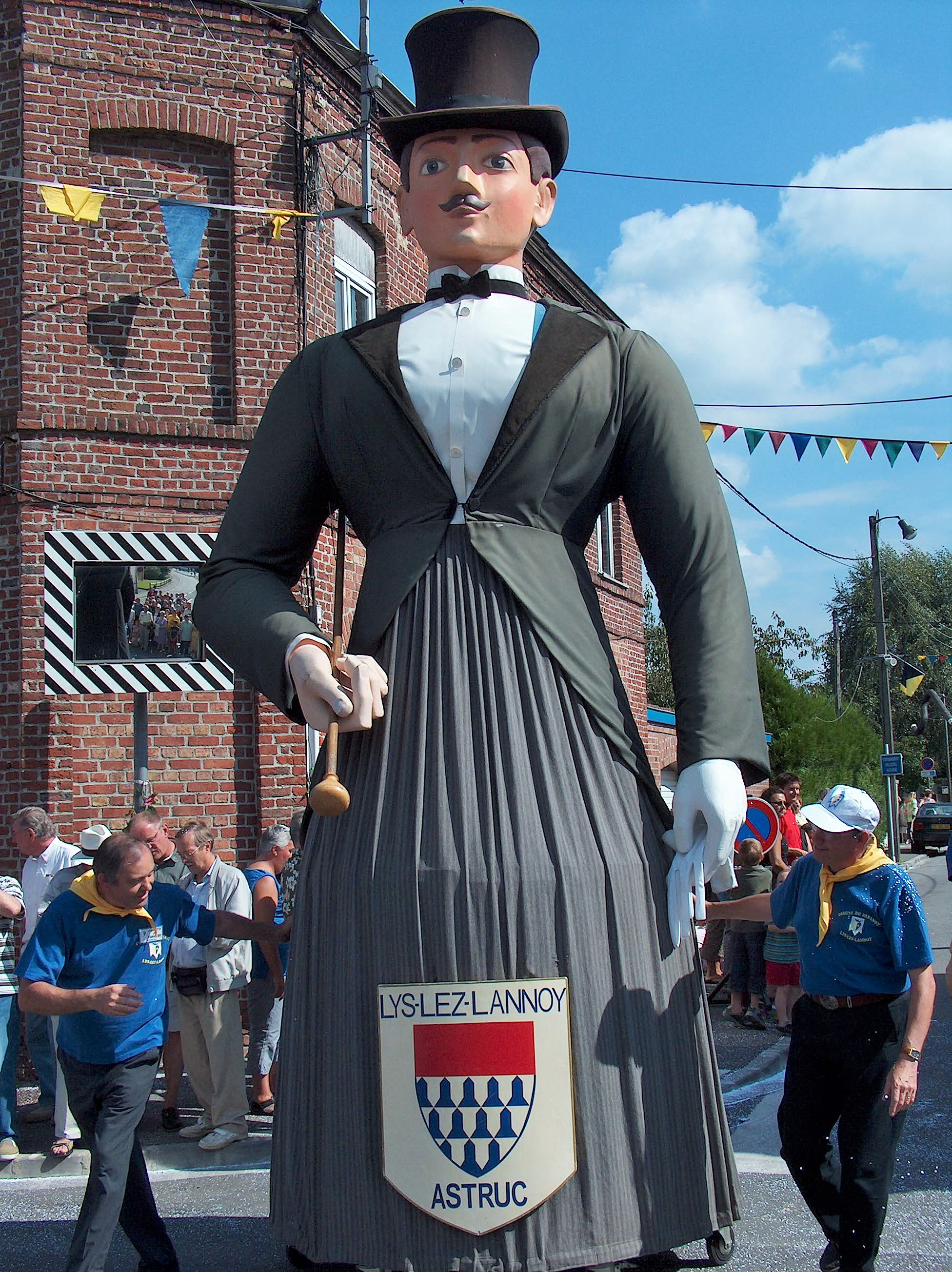 Astruc giant parade in the city of Lyse-lez-Lannoy during the celebration of Fresnoy